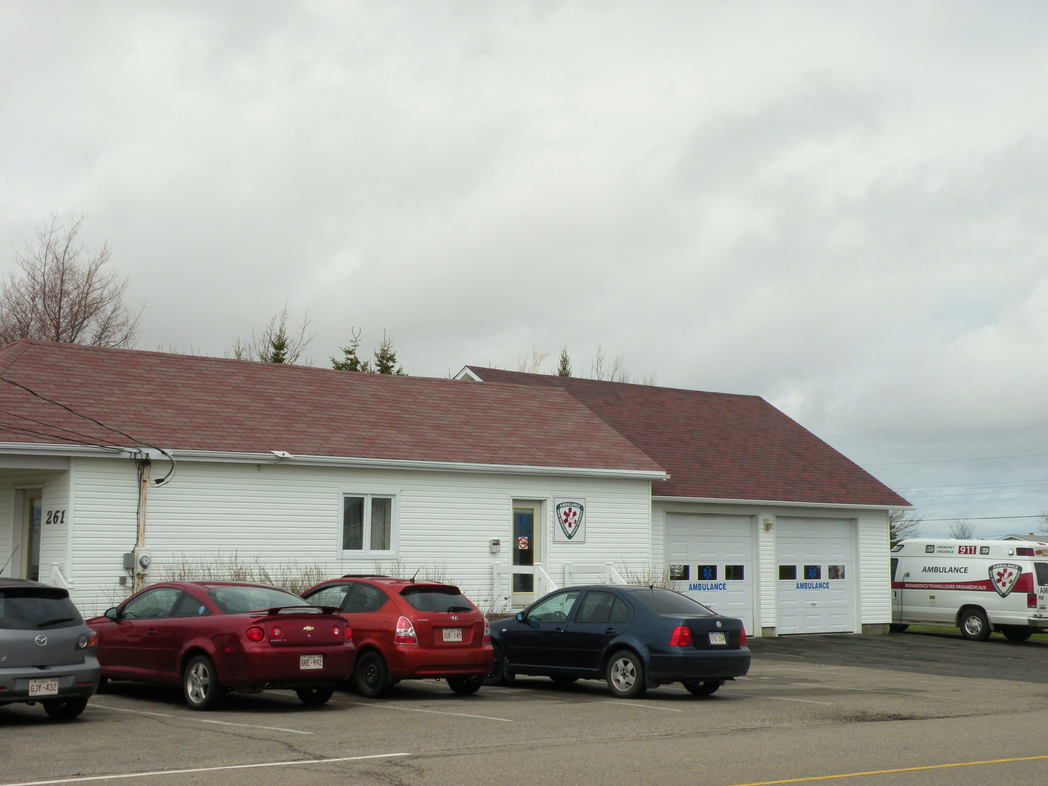 Ambulance New Brunswick station in Caraquet.